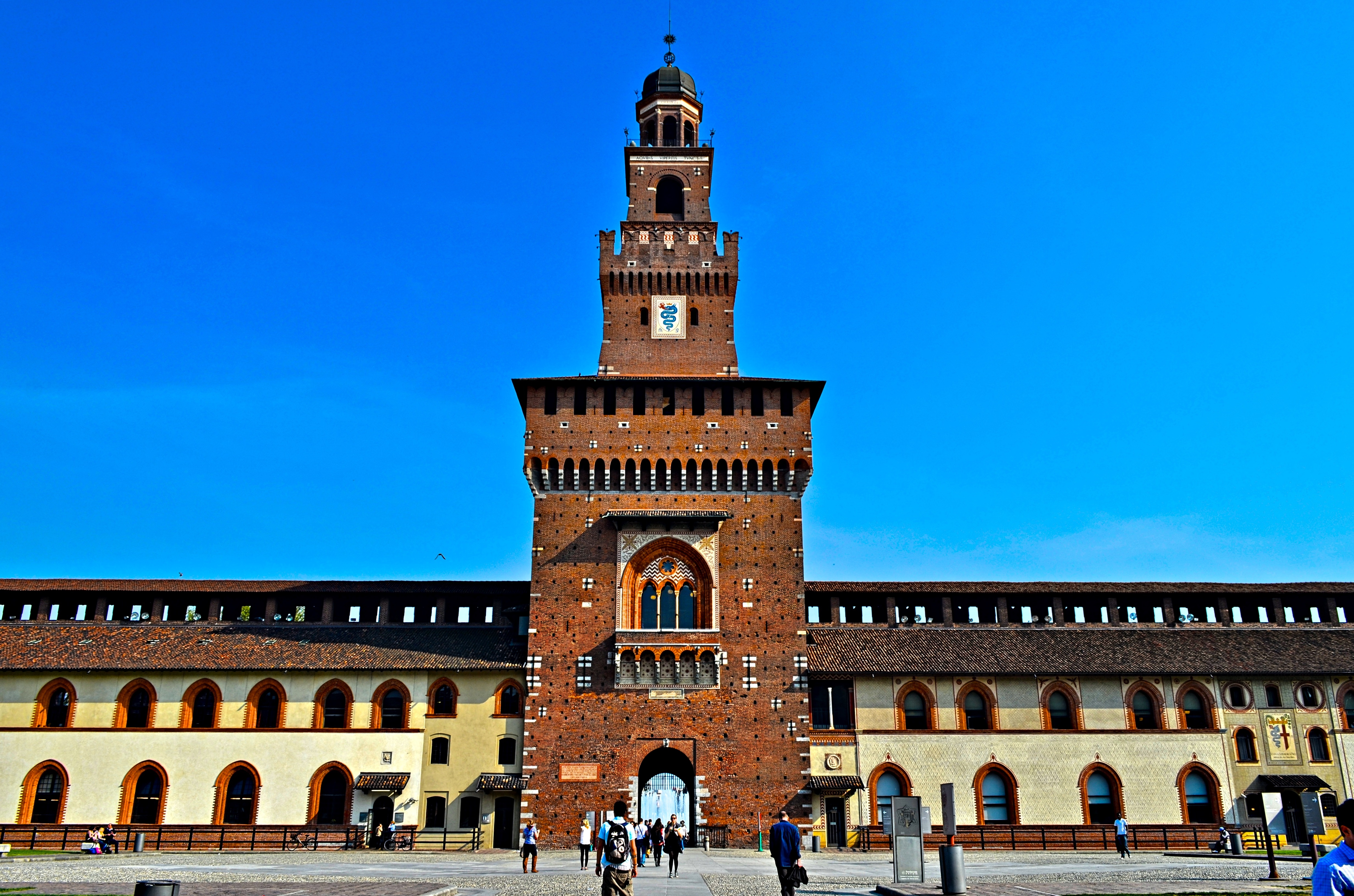 Sforza Castle, Milan